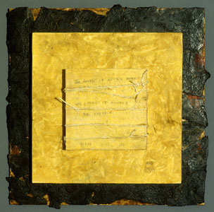 Tetto Giko message to his followers